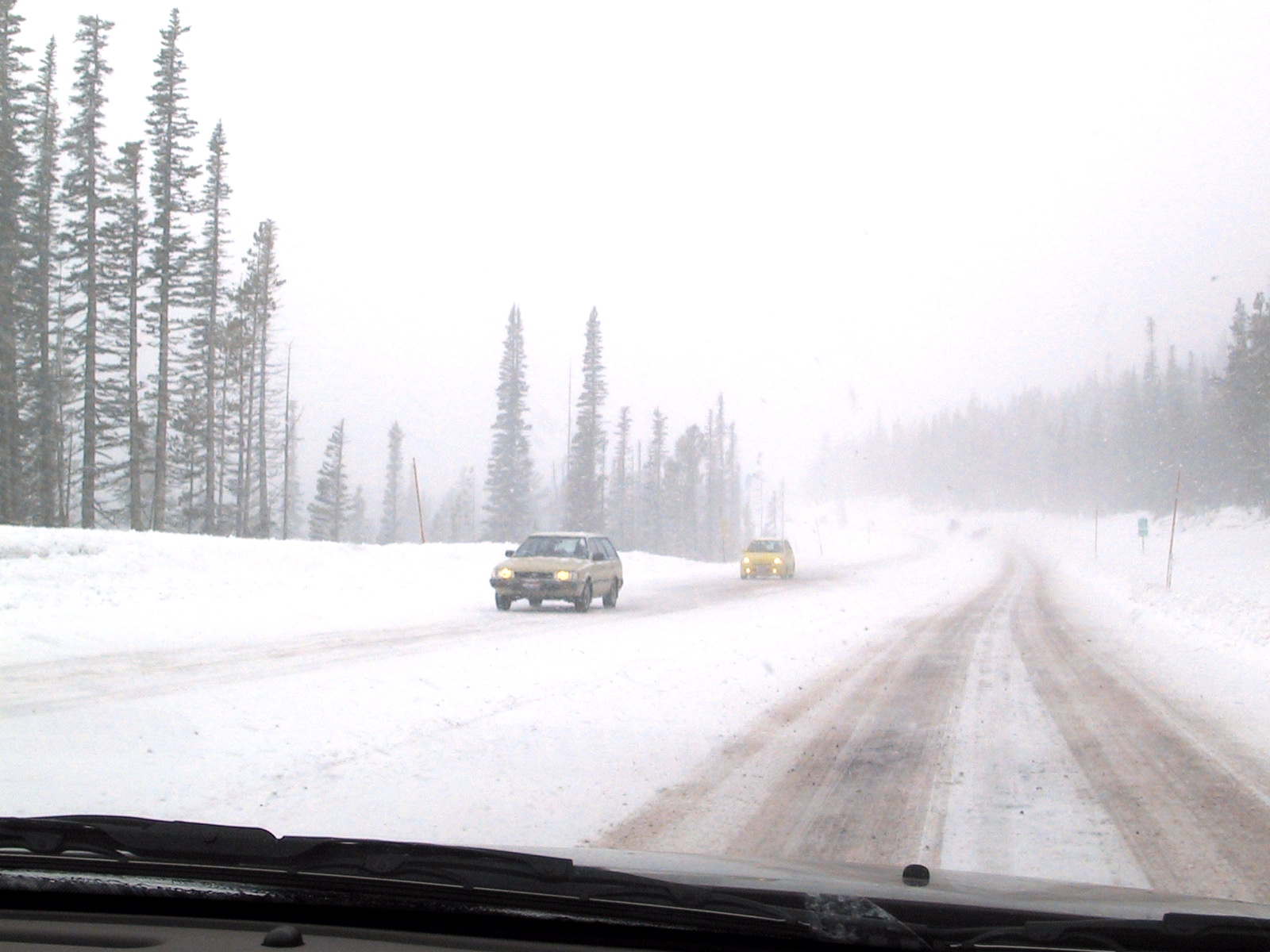 Snowy weather en route to Mt. Bachelor — we did little to no skiing this day.